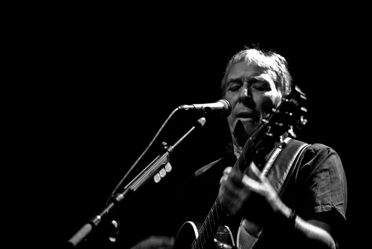 John Cale at Le Chabada, Angers, France, 14 October 2011